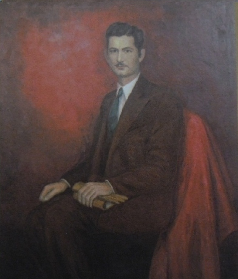 Painting of Noureddine Khayachi by his father Hédi Khayachi (1882-1948)